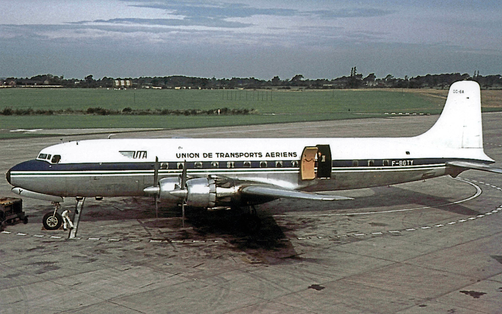 Douglas DC-6A F-BGTY of Union de Transports Aeriens at Manchester Airport in 1964